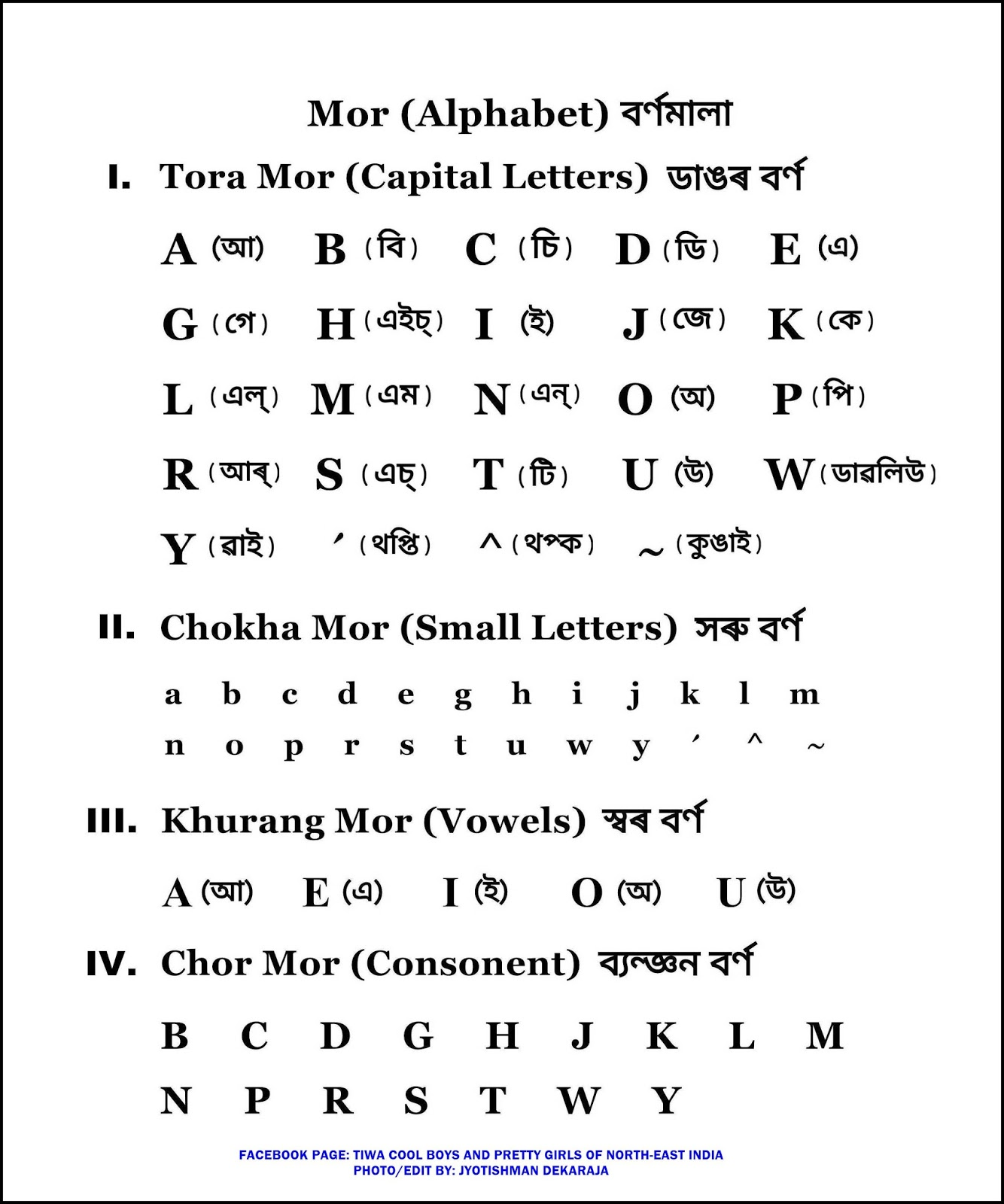 Tiwa Community (India) Alphabet.